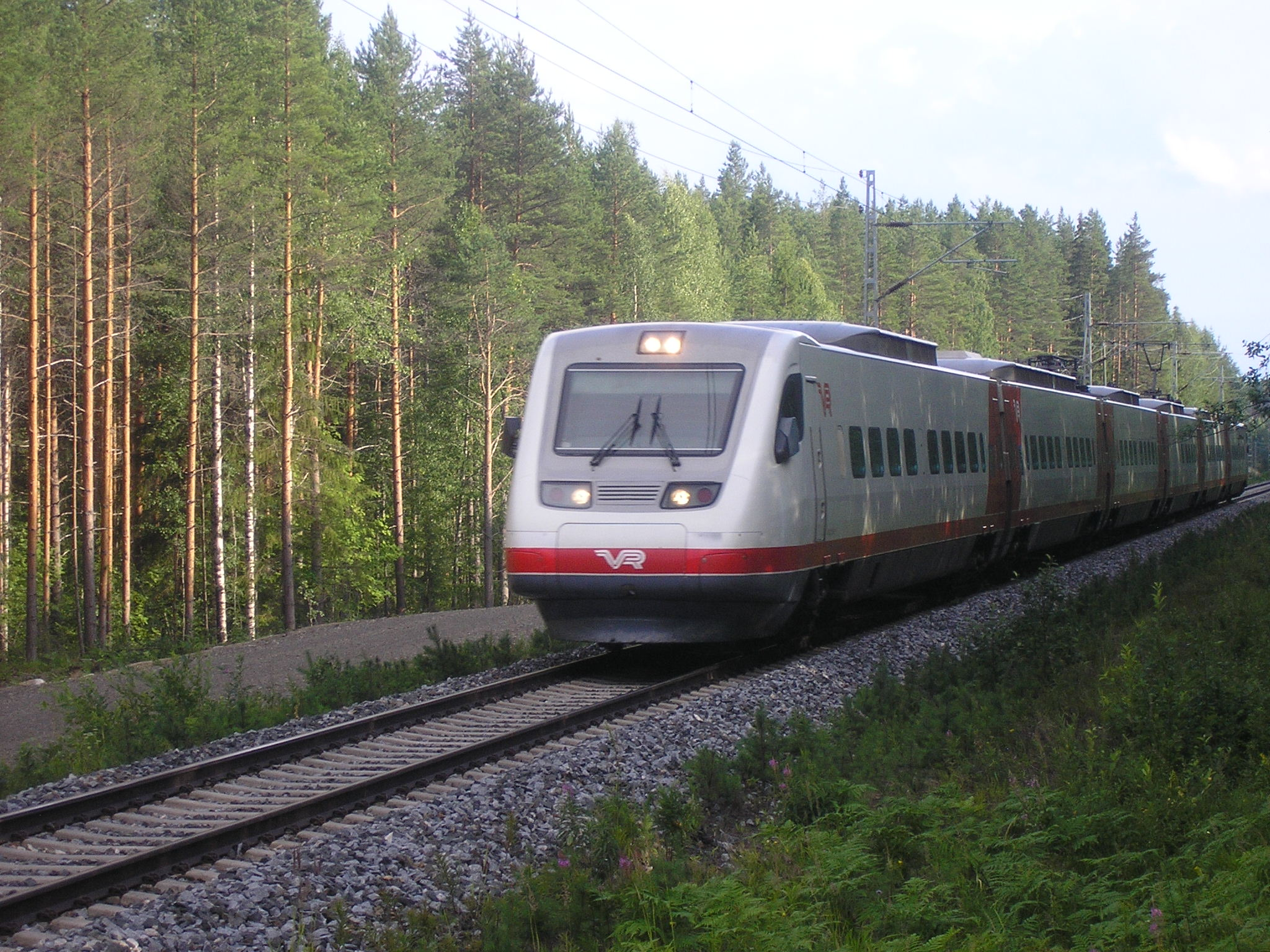 VR Class Sm3 Pendolino electric multiple unit on Kouvola–Joensuu railway in Kitee, Finland.